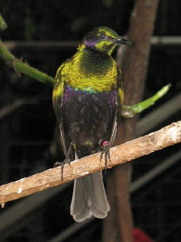 Description: Emerald Starling Lamprotornis iris (syn. Coccycolius iris) - Source: own work - Location: Central Park Zoo, New York - Author: self, User:Stavenn